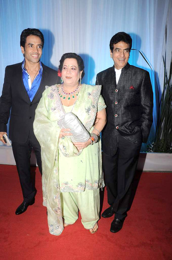 Tusshar Kapoor, Shobha Kapoor, Jeetendra at Esha Deol's wedding reception